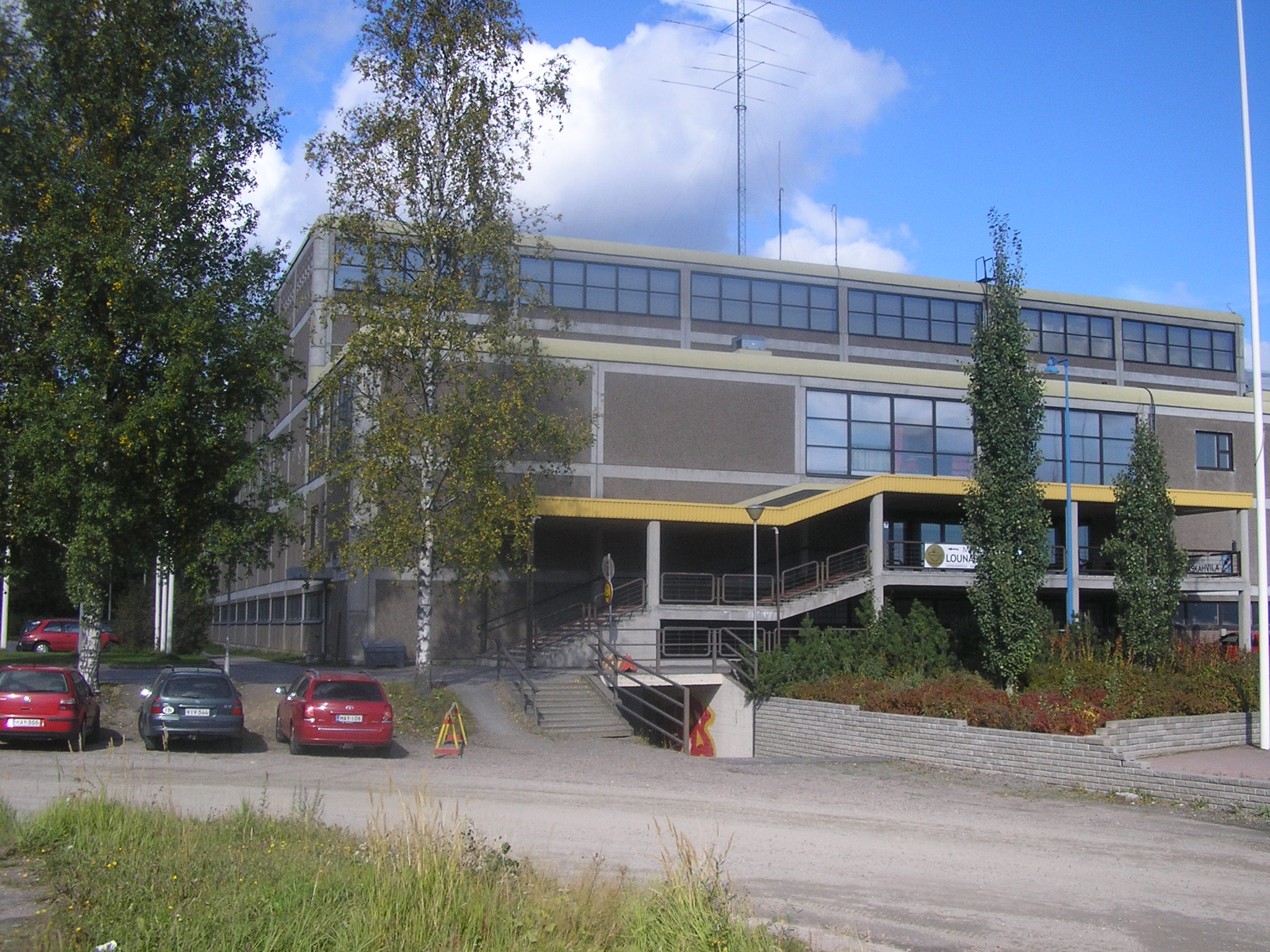 Monitoimitalo sports hall in Jyväskylä, Finland